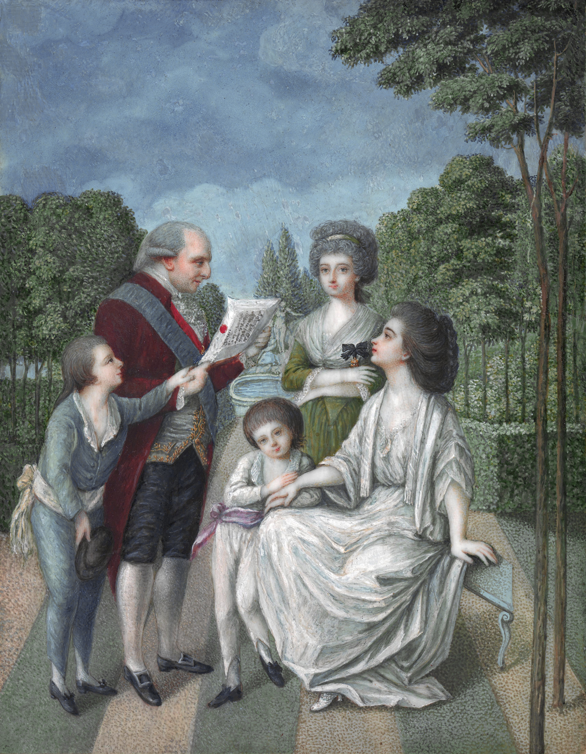 Count Camillo Marcolini (1739-1814) and his family on ivory 125 x 99 mm circa 1785